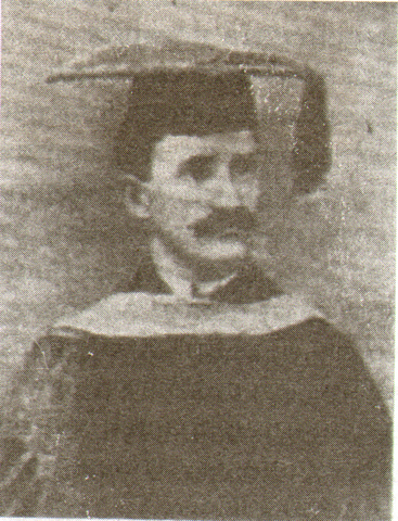 Portrait of Stanislav Shoomkoff (1867 - 1919)